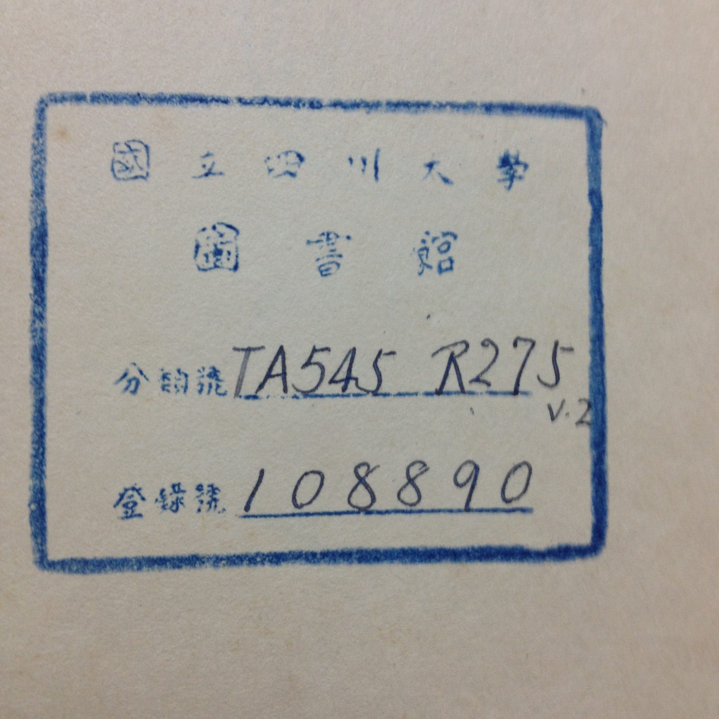 Library Stamp of National Sichuan University in the 1940's